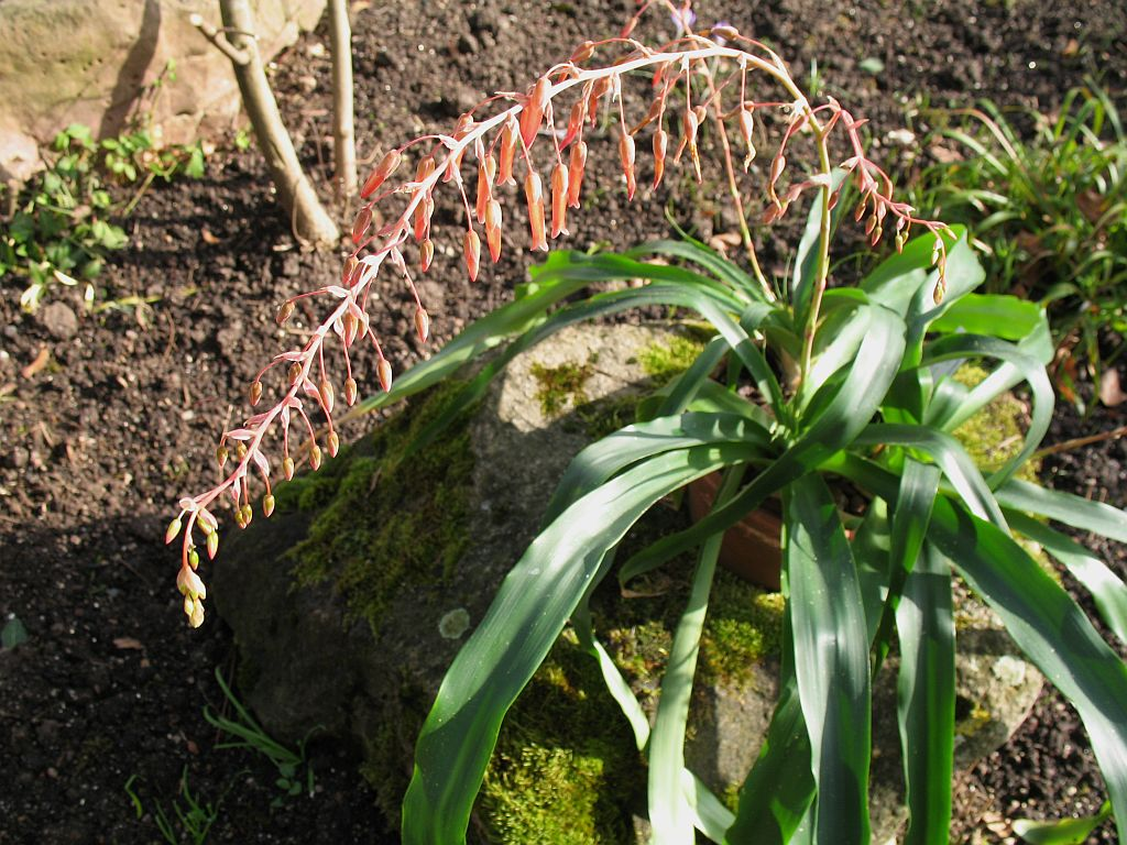 Fosterella spectabilis in cultivation at the Botanical Garden of Heidelberg, Germany.